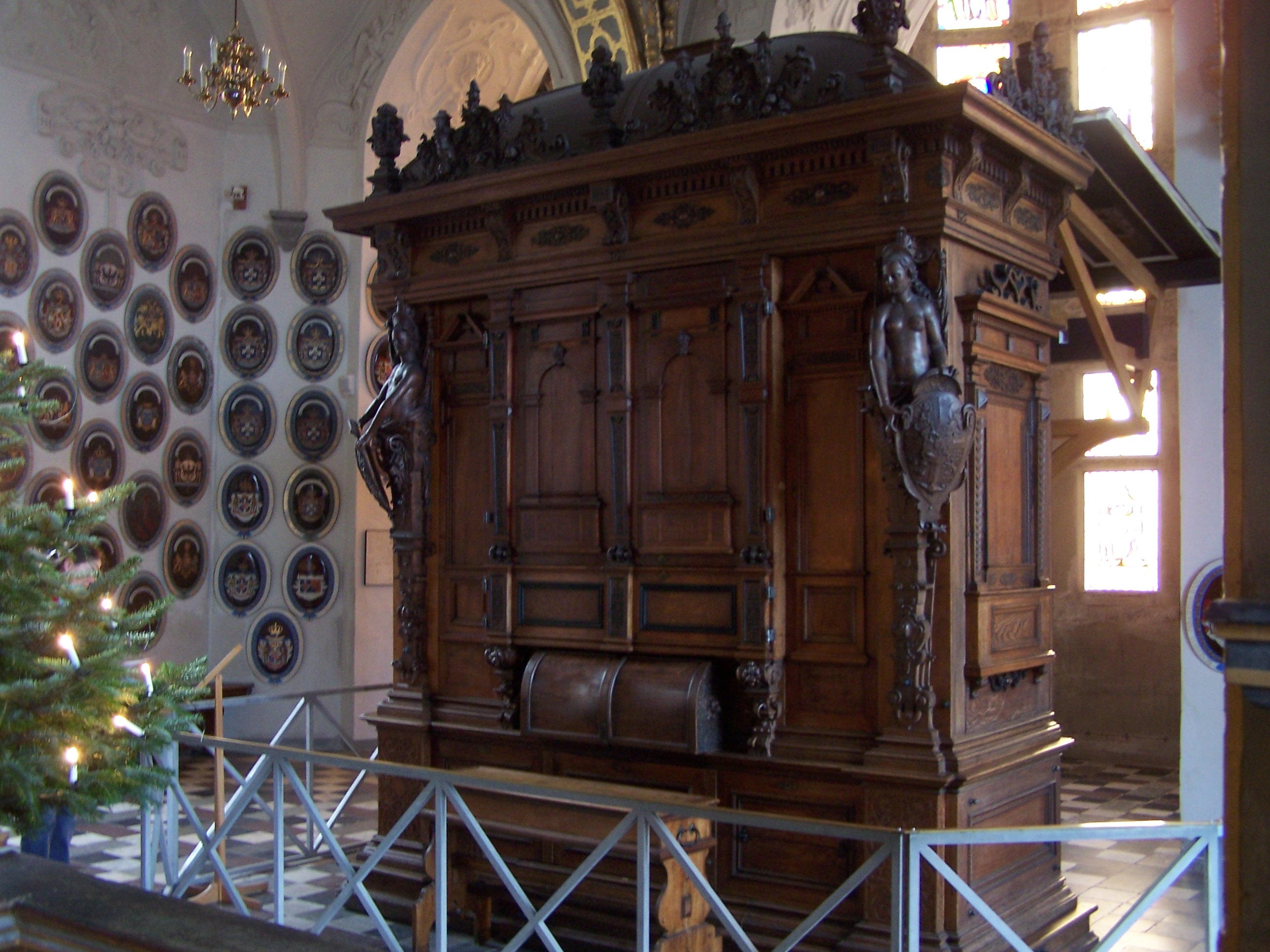 Esaias Compenius the Elder organ at Frederiksborg Palace Church in Hillerød, Denmark.